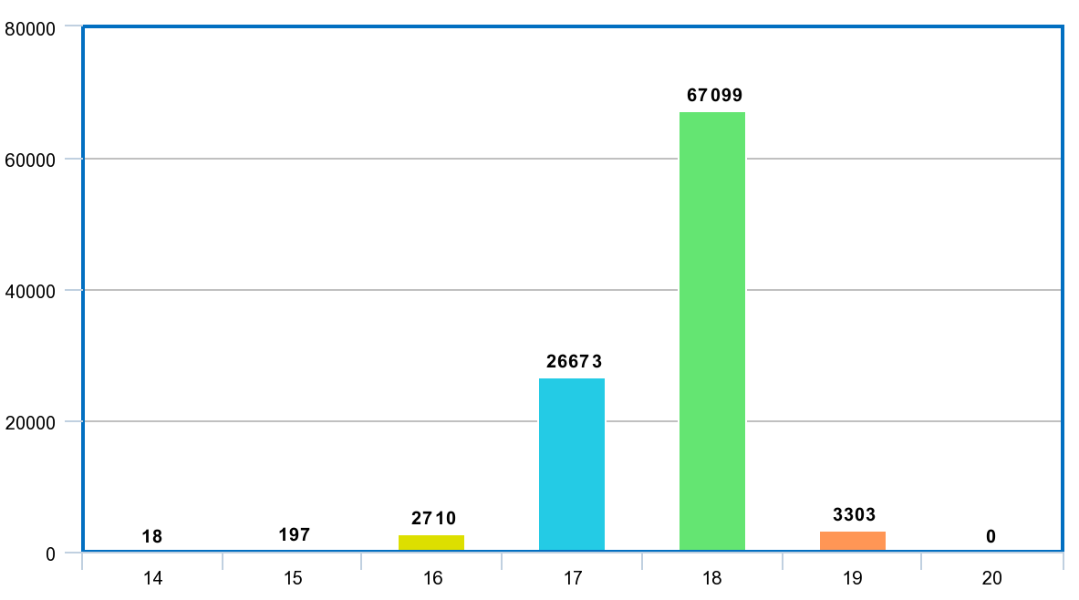 نحوه پراکندگی تعداد وضعیت‌های تصادفی بر حسب تعداد حرکات مورد نیاز برای حل بهینه هربرت کوکیمبا